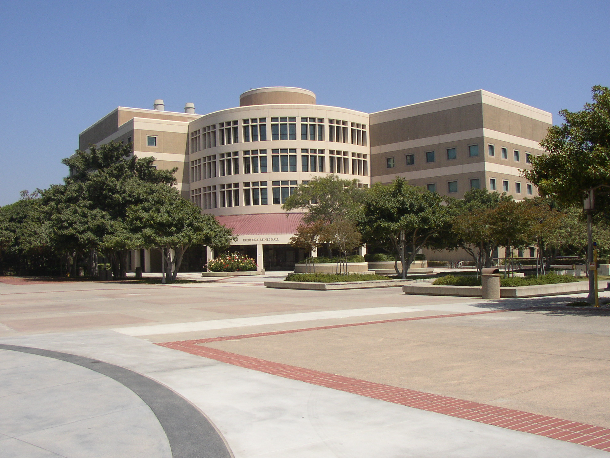 A picture of Frederick Reines Hall in the physical sciences plaza at the University of California, Irvine. The building houses the Physics & Astronomy Department and part of the Chemistry Department.